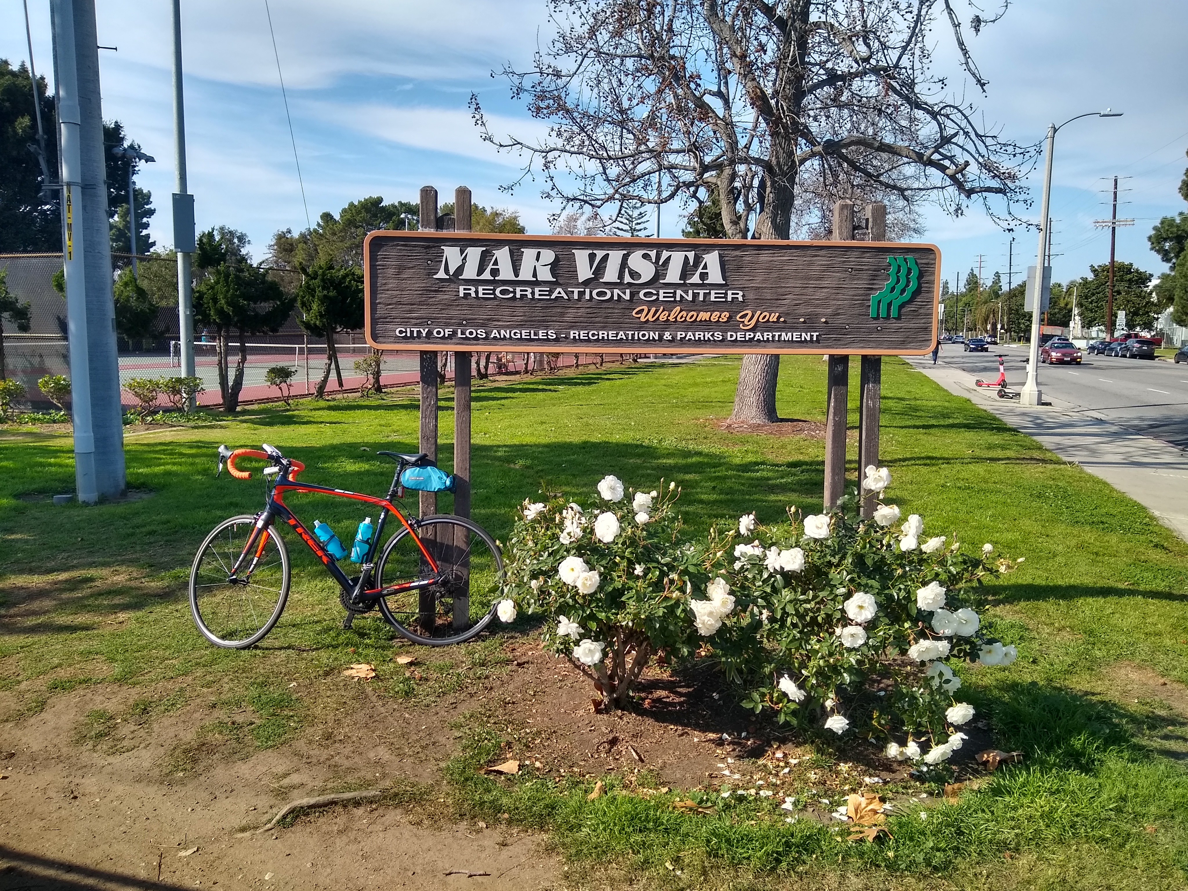 Mar Vista Recreation sign at the intersection of Sawtelle Boulevard and Palms Boulevard in Los Angeles.